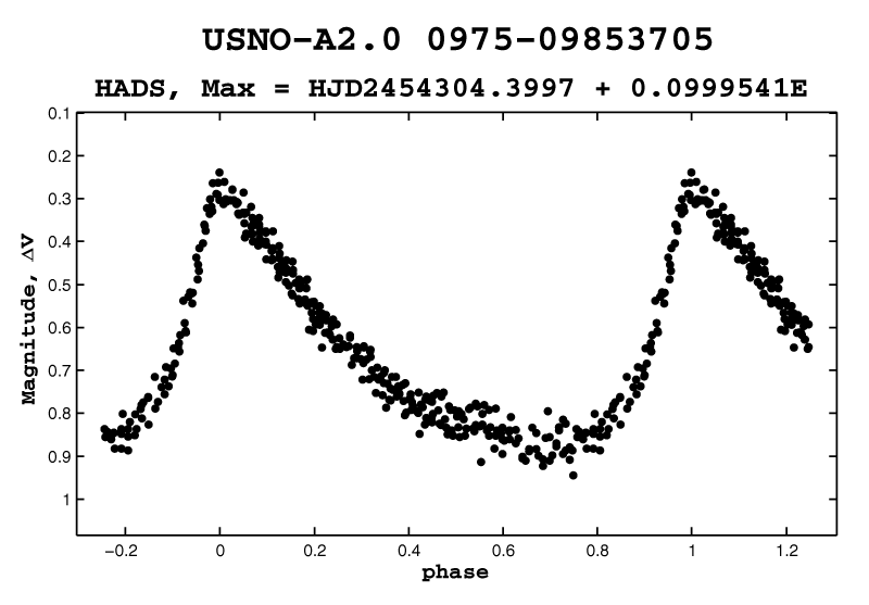 V-band CCD phased light curves of the High Amplitude Delta Scuti star